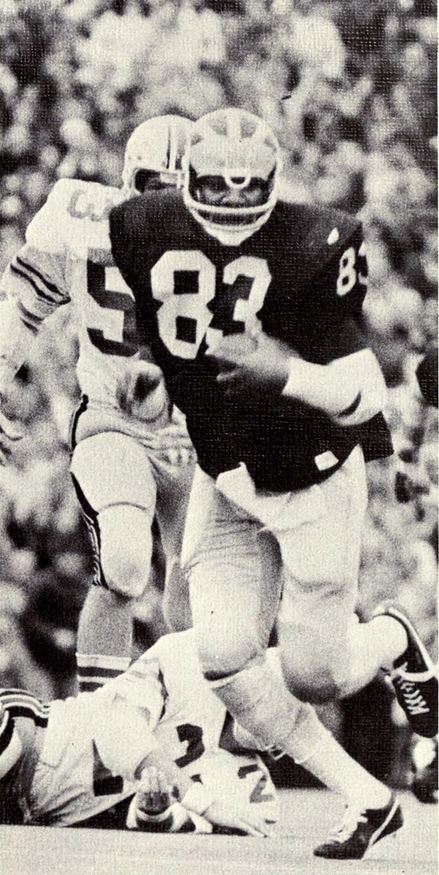 Photograph of Paul Seal running with ball after making a reception on a drive that led to a touchdown against Ohio State in 1973